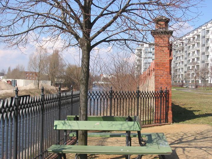 „Berlin-Spandauer Schifffahrtskanal“, at Invalidenfriedhof (invalide’s cemetary), view to north